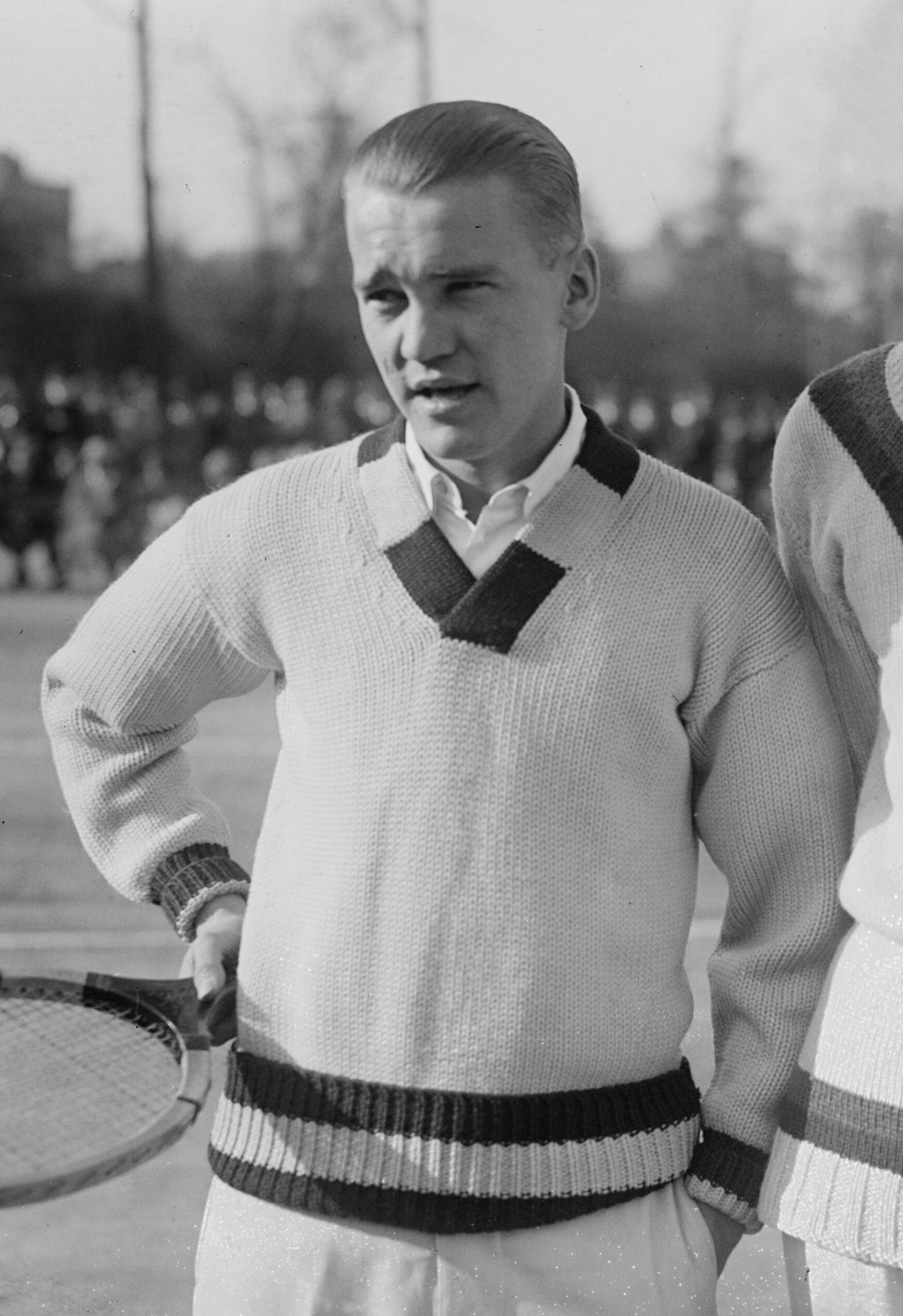 TITLE: Richards - Tilden - Johnston, (tennis) CALL NUMBER: LC-B2- 5987-7[P&P] REPRODUCTION NUMBER: LC-DIG-ggbain-35883 (digital file from original negative) RIGHTS INFORMATION: No known restrictions on publication. MEDIUM: 1 negative : glass ; 5 x 7 in. or smaller. CREATED/PUBLISHED: [no date recorded on caption card] CREATOR: Bain News Service, publisher. NOTES: Title from unverified data provided by the Bain News Service on the negatives or caption cards. Forms part of: George Grantham Bain Collection (Library of Congress). General information about the Bain Collection is available at Temp. note: Batch eight loaded. FORMAT: Glass negatives. REPOSITORY: Library of Congress Prints and Photographs Division Washington, D.C. 20540 USA DIGITAL ID: (digital file from original neg.) ggbain 35883 CONTROL #: ggb2006011296